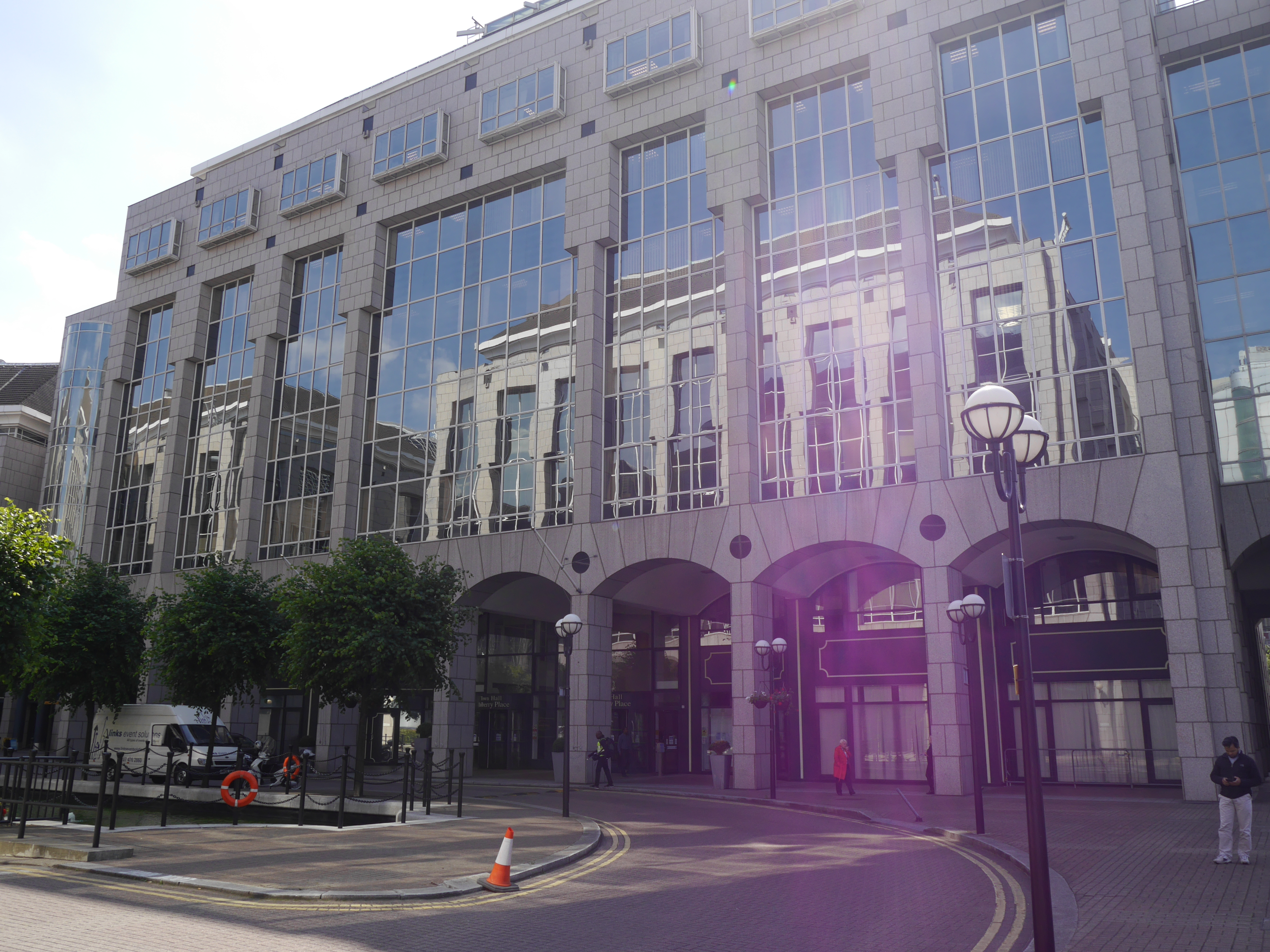 Mulberry Place, the town hall for the London Borough of Tower Hamlets, viewed from adjacent to the northern remnant water from the old dock.